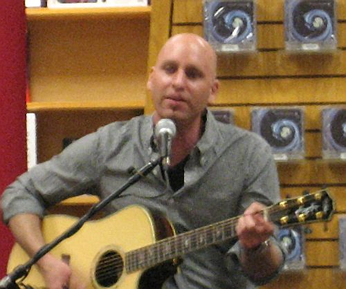 Matt Scannell of Vertical Horizon performing at Borders in Northridge, CA on February 20, 2010.